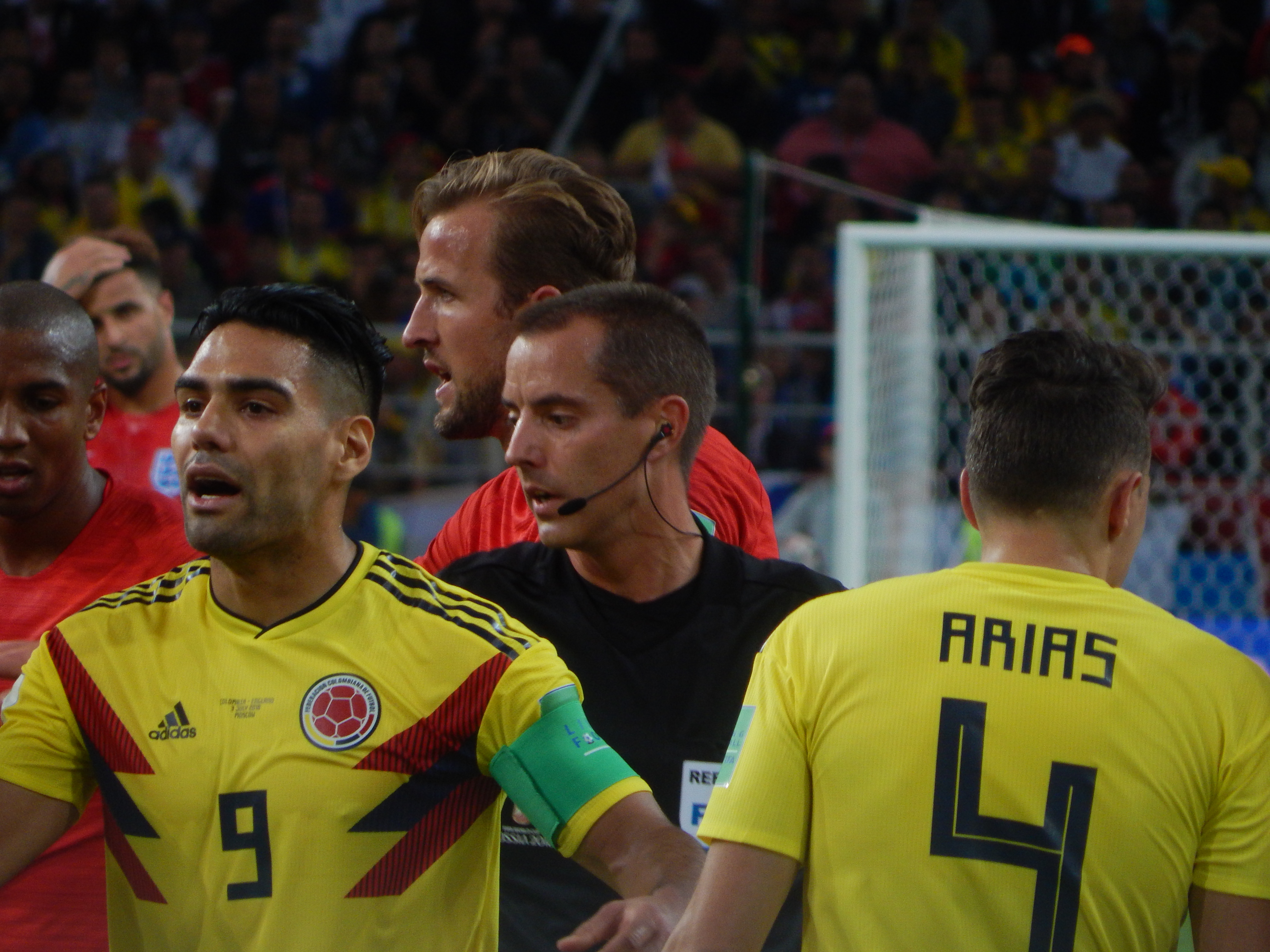 FIFA World Cup 2018, Round of 16, Colombia vs. England